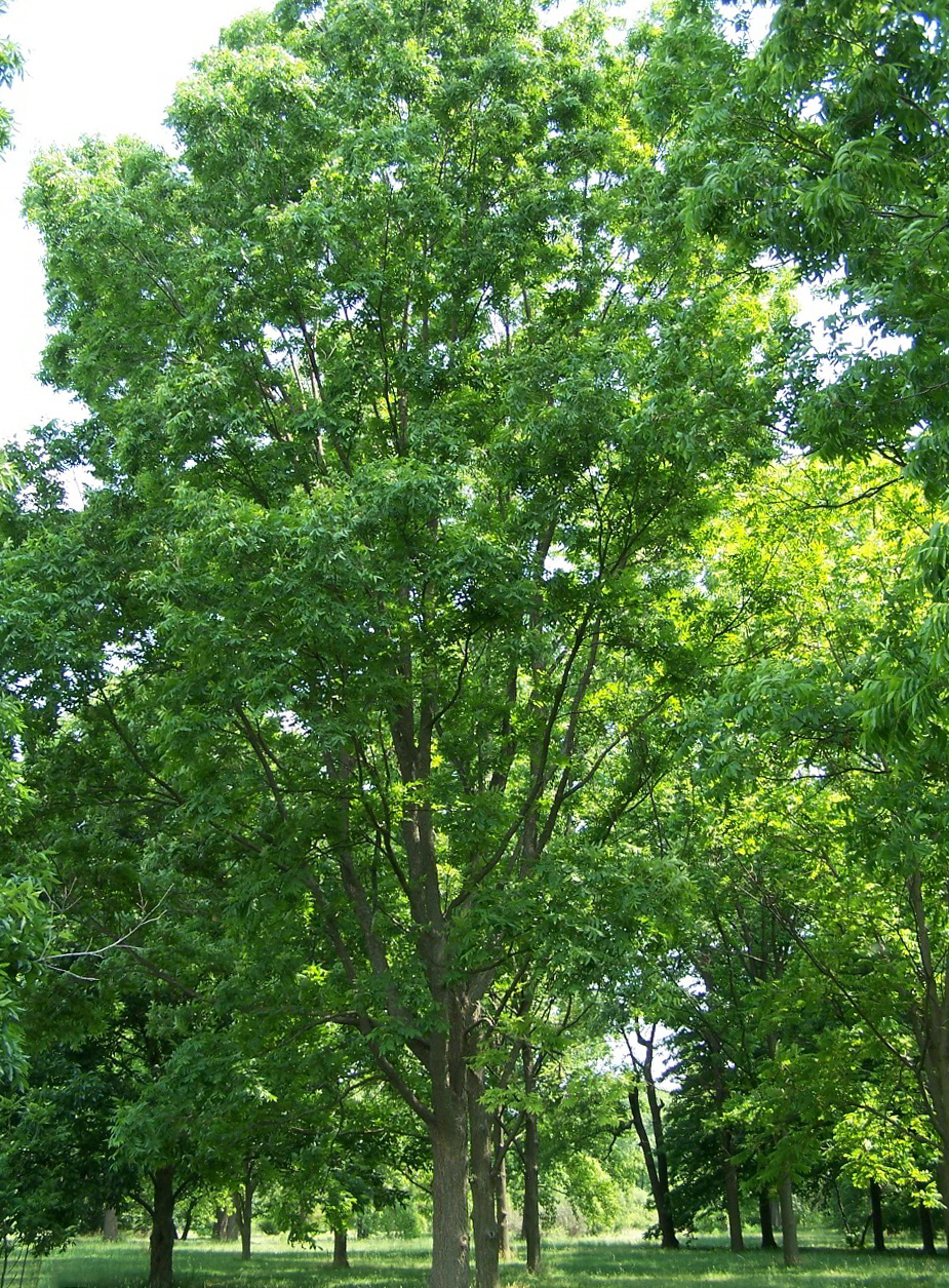 Pecan Tree Carya illinoinensis, 68-year-old tree from seed. Morton Arboretum acc. 1082-39*3